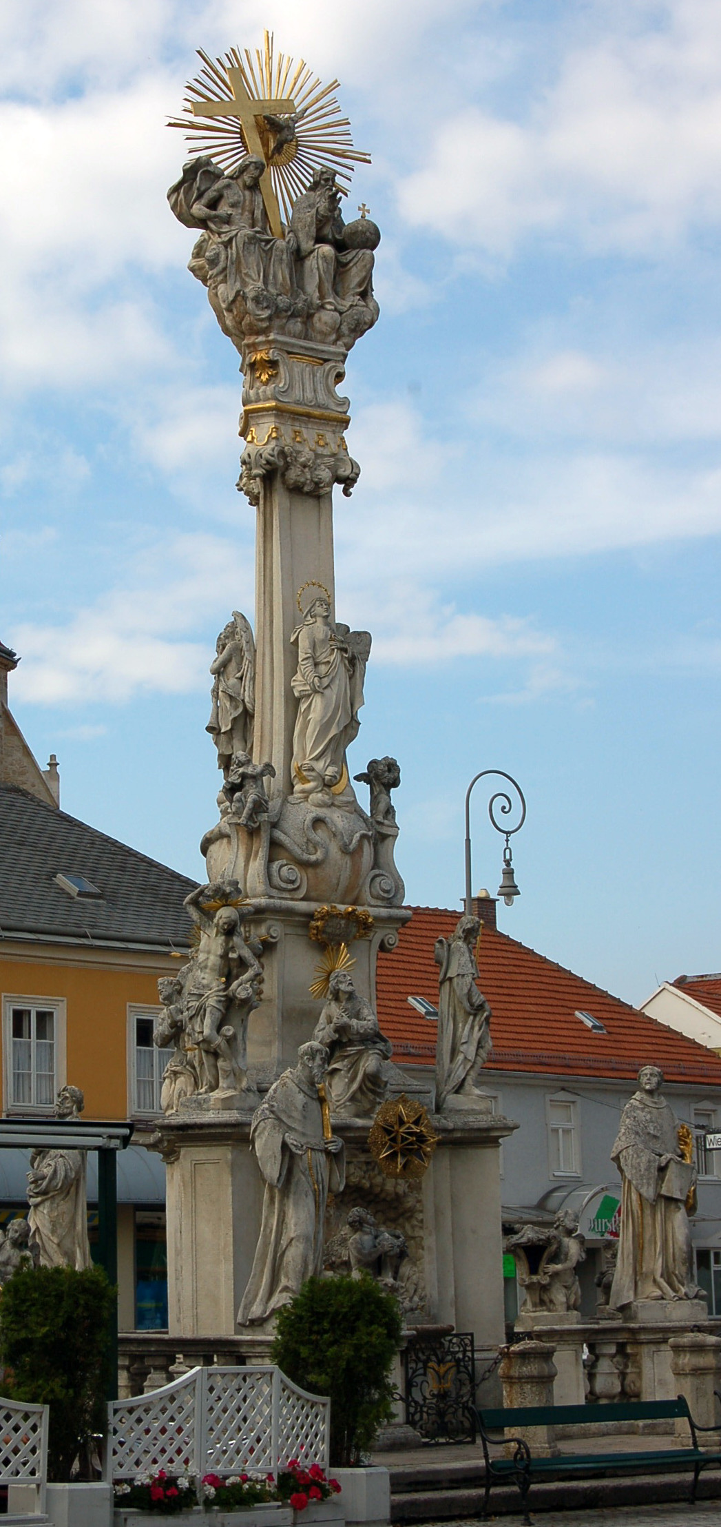 Baroque Trinity column on main square of Neunkirchen, Lower Austria